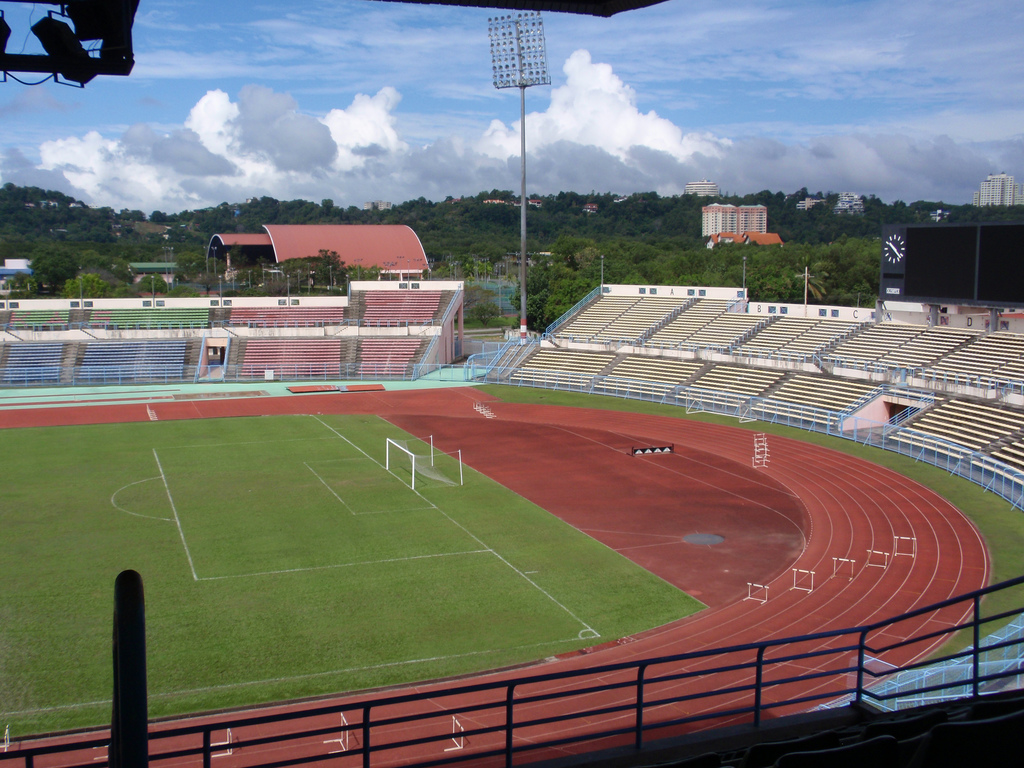 Another sight of the Likas Stadium, this part is on the other side, towards the north. In the background you can see some cumulonimbus calvus clouds moving away.